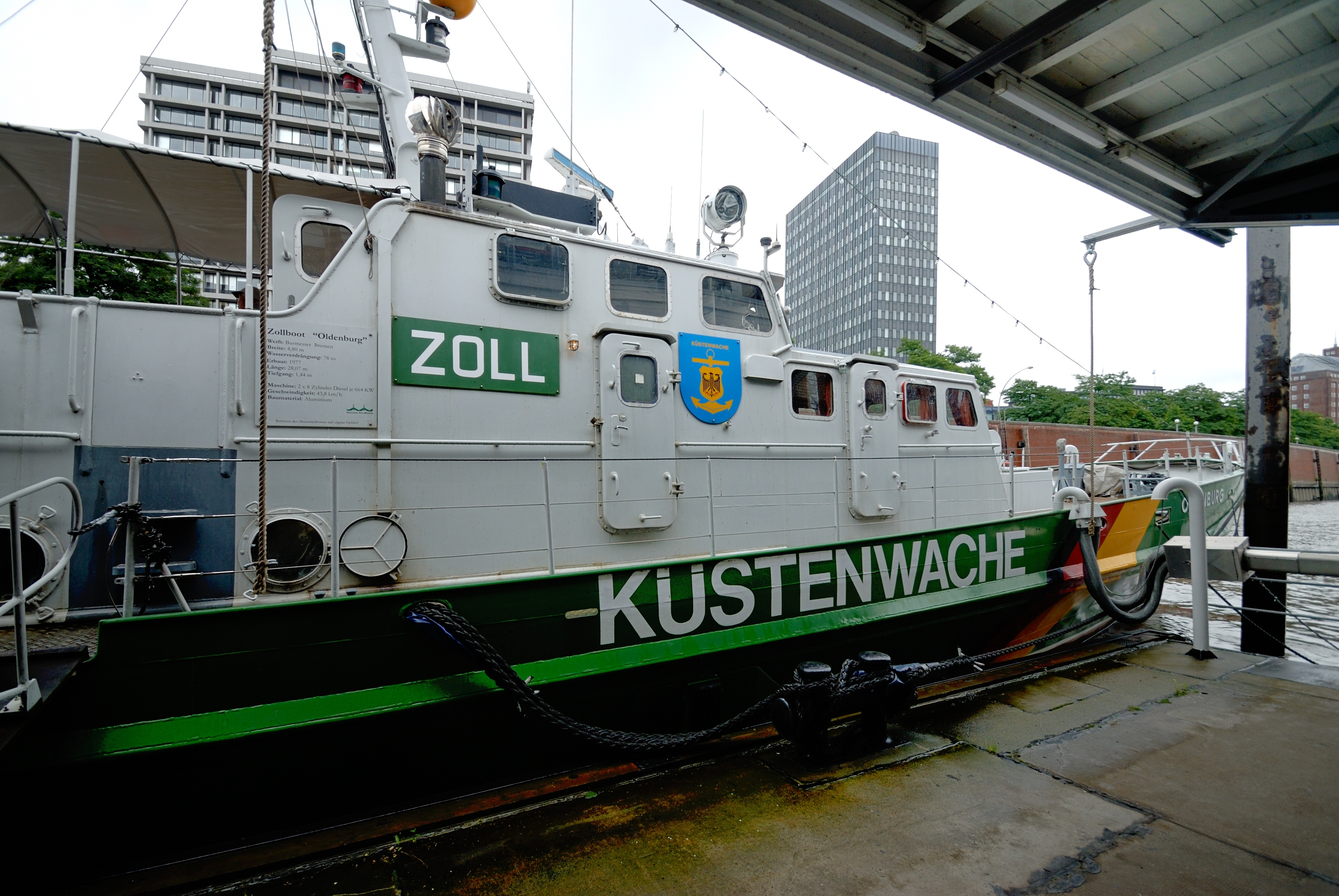 Ship Oldenburg, part of the customs museum, Hamburg.